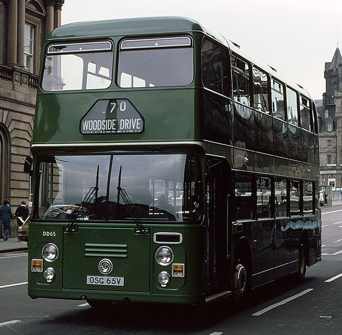 Eastern Scottish (Scottish Omnibuses) bus DD65 (reg. OSG 65V), seen here heading north along North Bridge in Edinburgh city centre, heading for St Andrew Square bus station. As indicated by its gleaming paintwork and undented panels, it's a brand new (delivered this month) Eastern Coachworks bodied Leyland Fleetline. It was either running late or the driver wanted to maximise his break period - they have already prematurely set the destination blinds to the next outbound destination, the working back south over the bridge, to Woodside Drive (Penicuik).